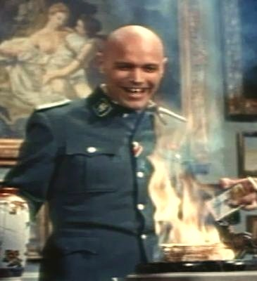 Kurt Meisel in A Time to Love and a Time to Die - trailer (cropped screenshot)